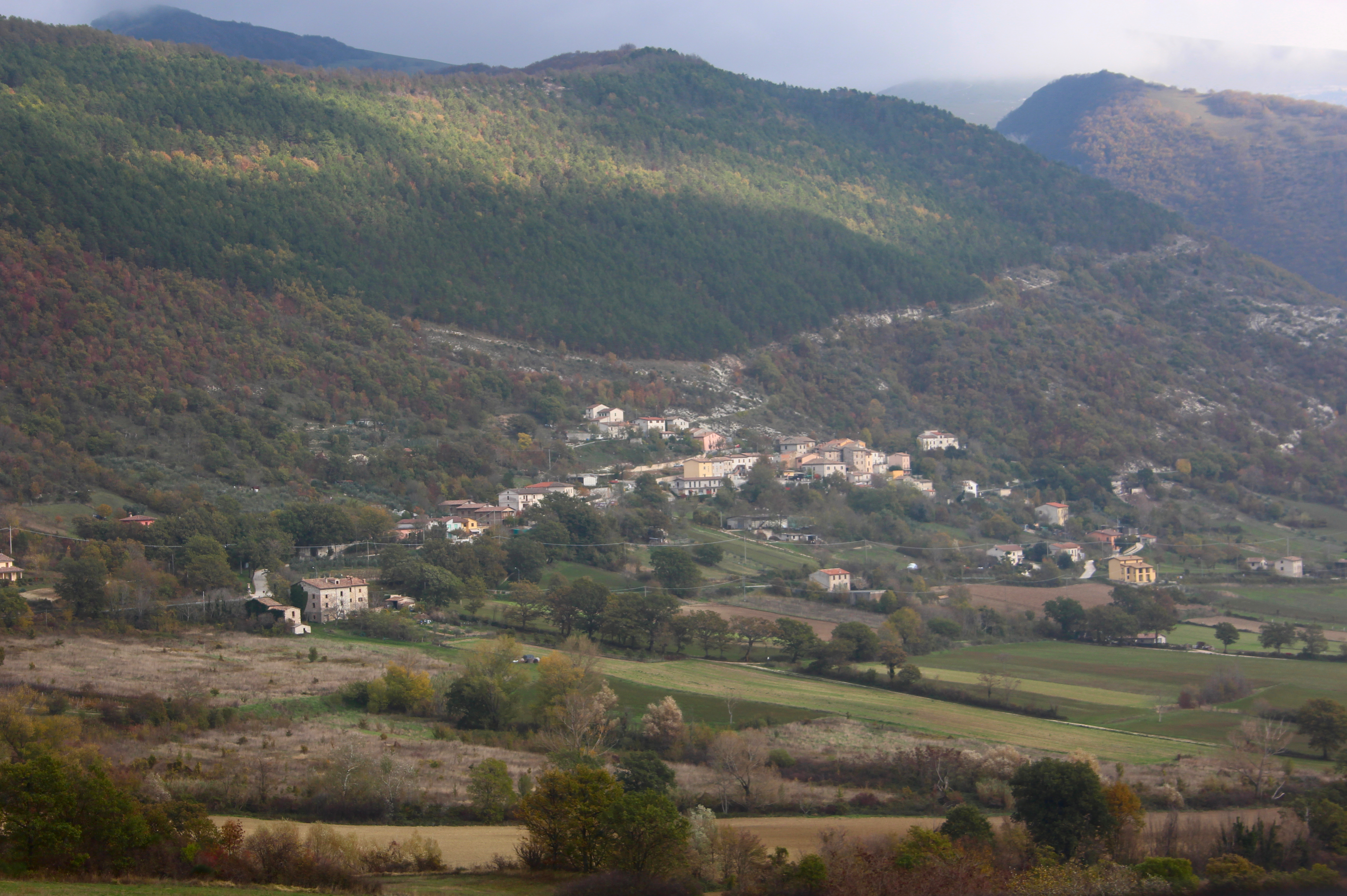 Costa San Savino, hamlet of Costacciaro, Province of Perugia, Umbria, Italy